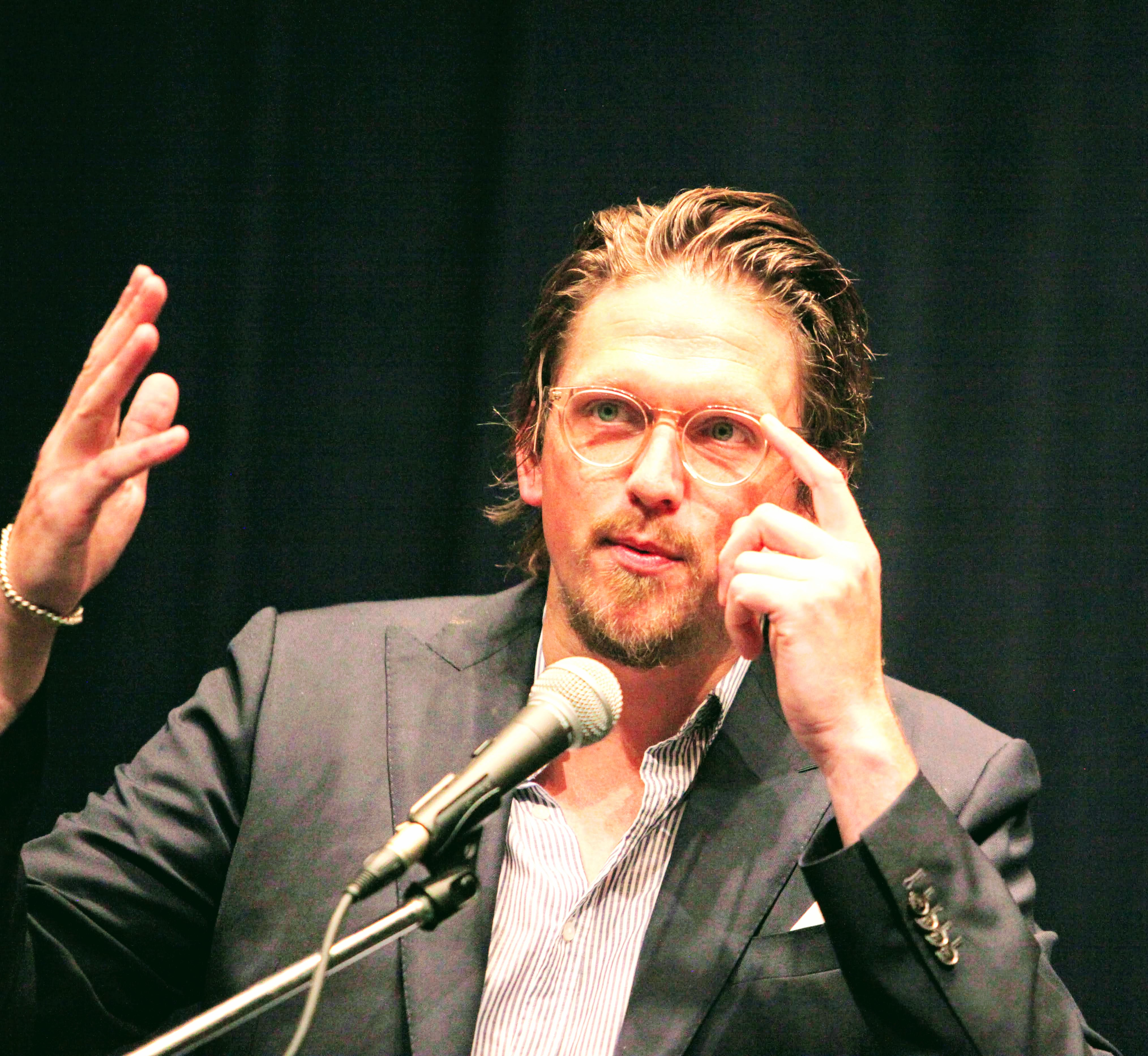 German film director Jan-Ole Gerster on 30 June 2019 at the International Film Festival Karlovy Vary. Gerster presented his competition entry "Lara".